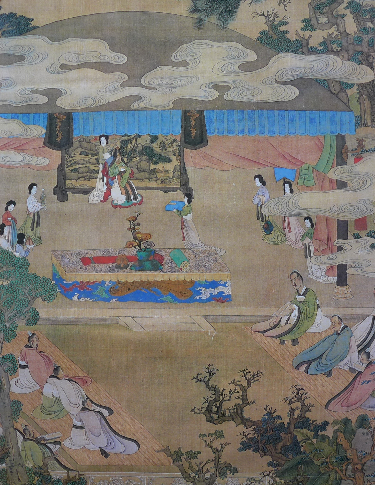 Detail of Lady Xuanwen Jun Giving Instructions on the Classics in Cleveland Musem, USA by Chen Hongshou (1598–1652)